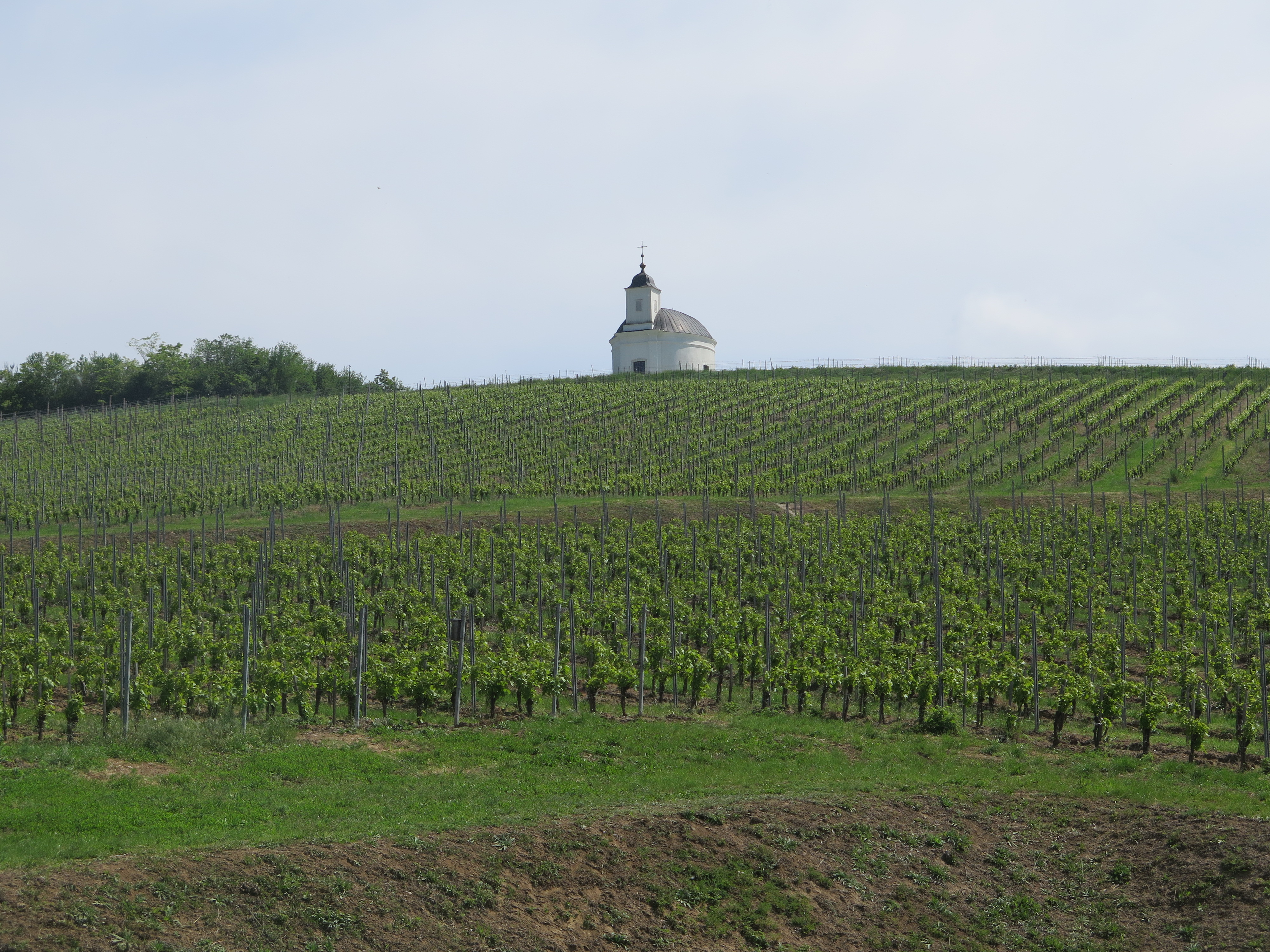 Terézia-kápolna hill in Tarcal